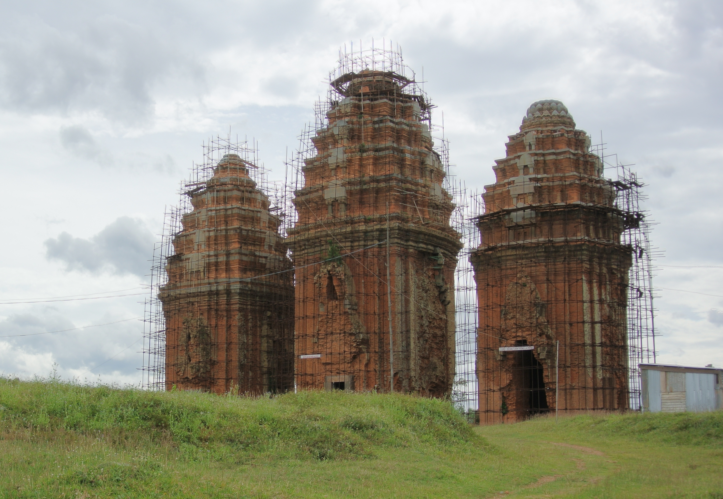 Duong Long tower - ruin of Champa kingdom at TaySon district BinhDinh province Vietnam